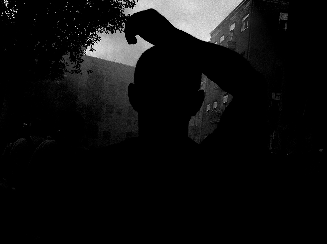 Jordi V. Pou's Kokovoko project picture from 14th May 2013